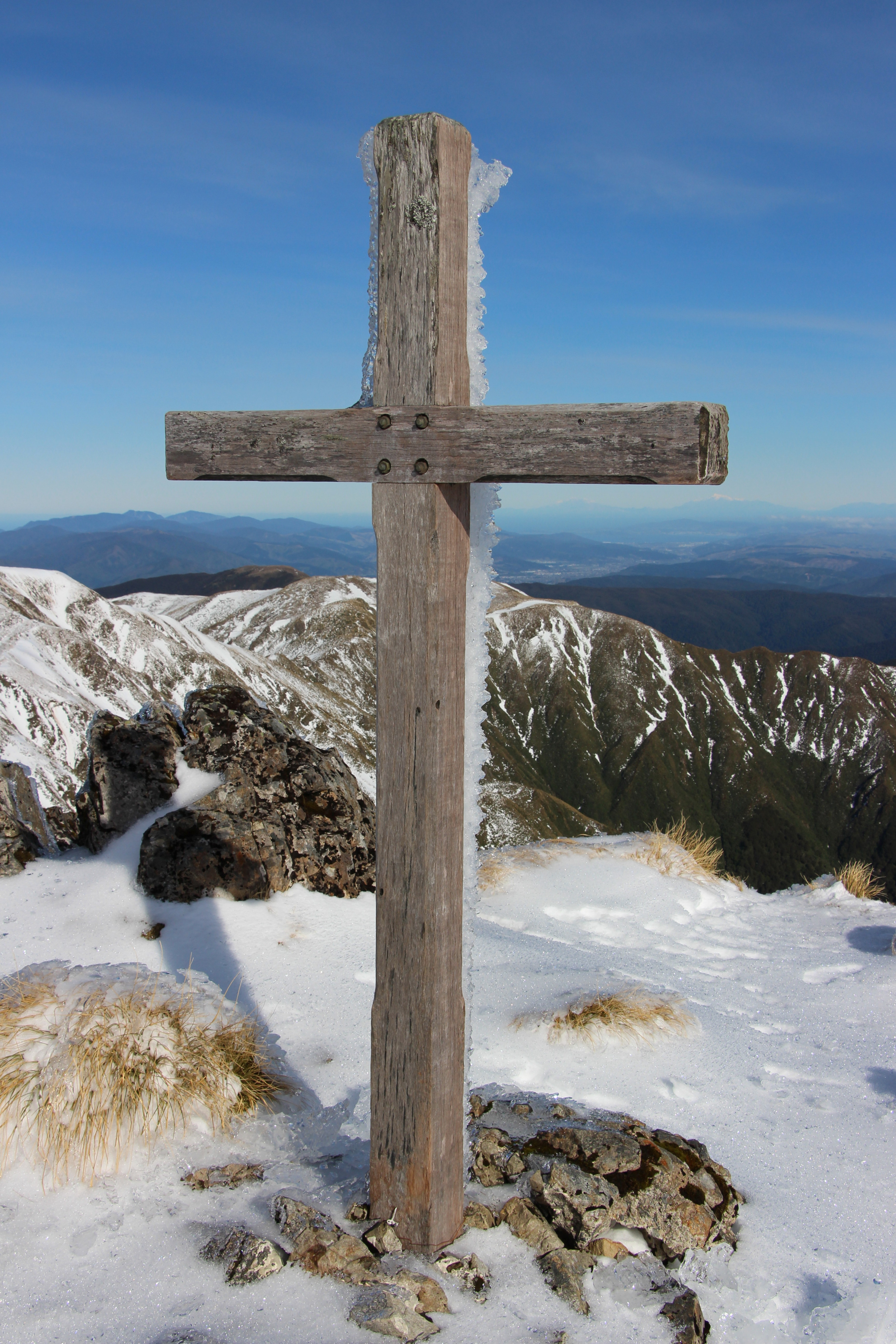 The memorial cross on Mt Hector which commemorates mountaineers and other climbers killed in the Second World War. Tararuas, New Zealand